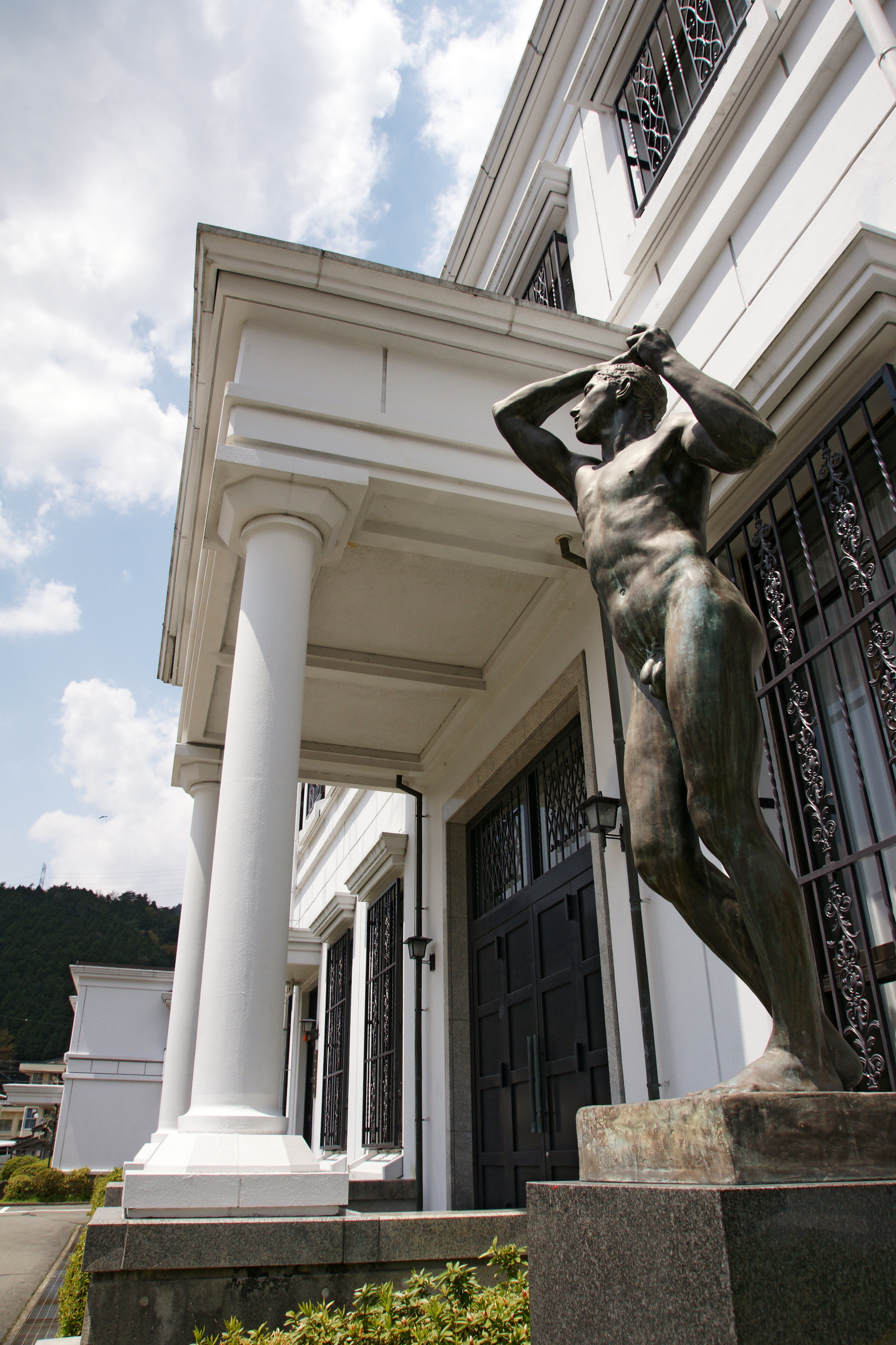 The Age of Bronze by Auguste Rodin on Tanyo Shinkin bank Hall (Tanyo Museum) in Kuchiganaya, Ikuno, Asago, Hyogo prefecture, Japan.